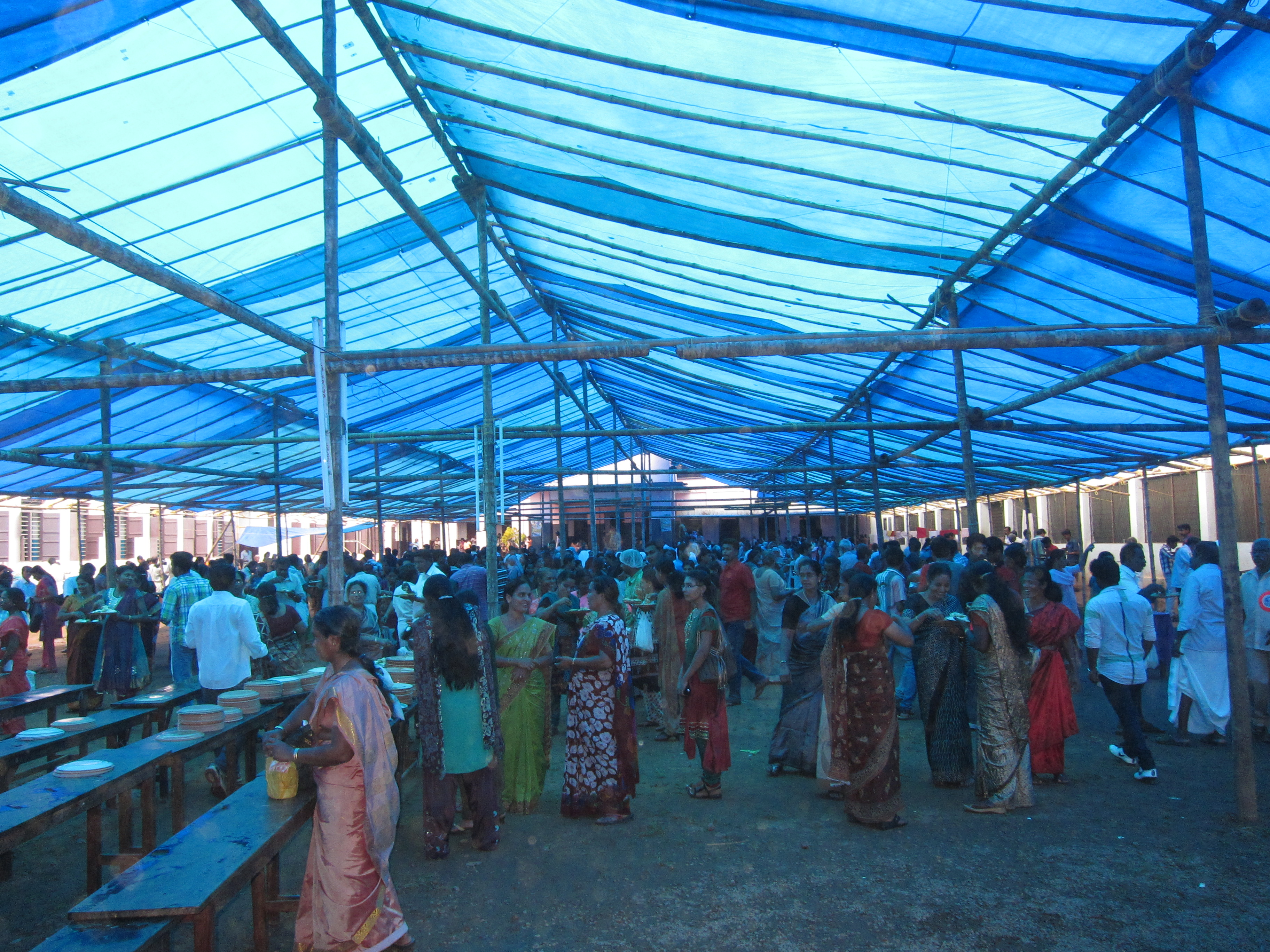 Mariam Thresia മറിയം ത്രേസ്യ June 8, ജൂൺ 8 Kuzhikkattussery കുഴിക്കാട്ടുശ്ശേരി Thrissur District തൃശ്ശൂർ ജില്ല ജൂൺ 8 ന് മരണദിവസം നിരവധി തീർത്ഥാടകർ മാള പഞ്ചായത്തിലെ കുഴിക്കാട്ടുശ്ശേരി ഹോളി ഫാമിലി കോൺവെന്റ് പള്ളിയിൽ വരാറുണ്ട്.